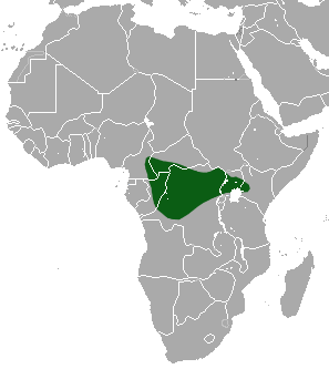 Naked-tail Shrew (Crocidura littoralis) range